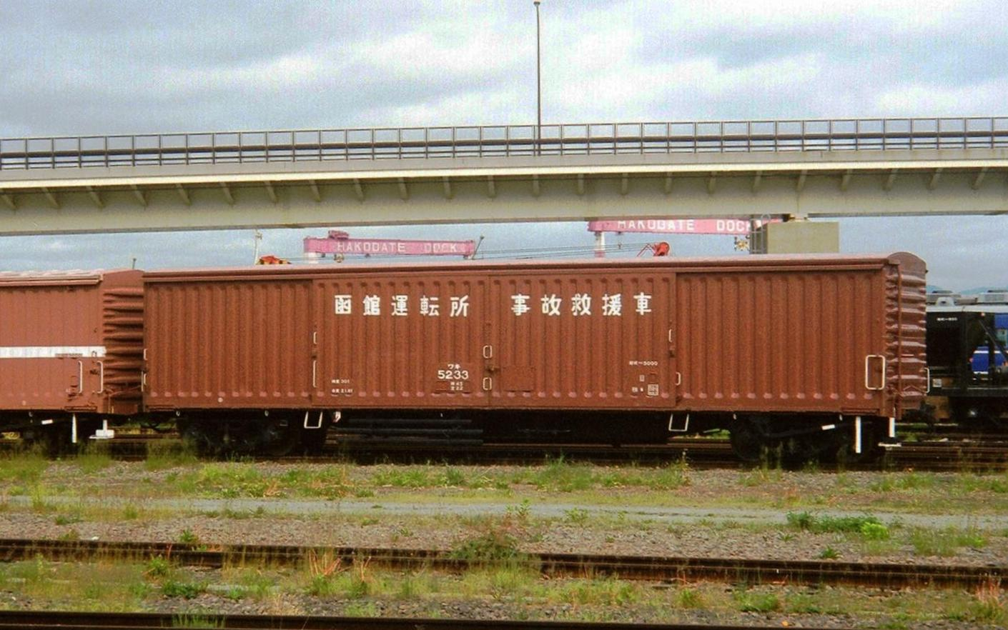 JR Hokkaido Type Waki5000[5233] Rescue car. It takes a picture at Hakodate Station.